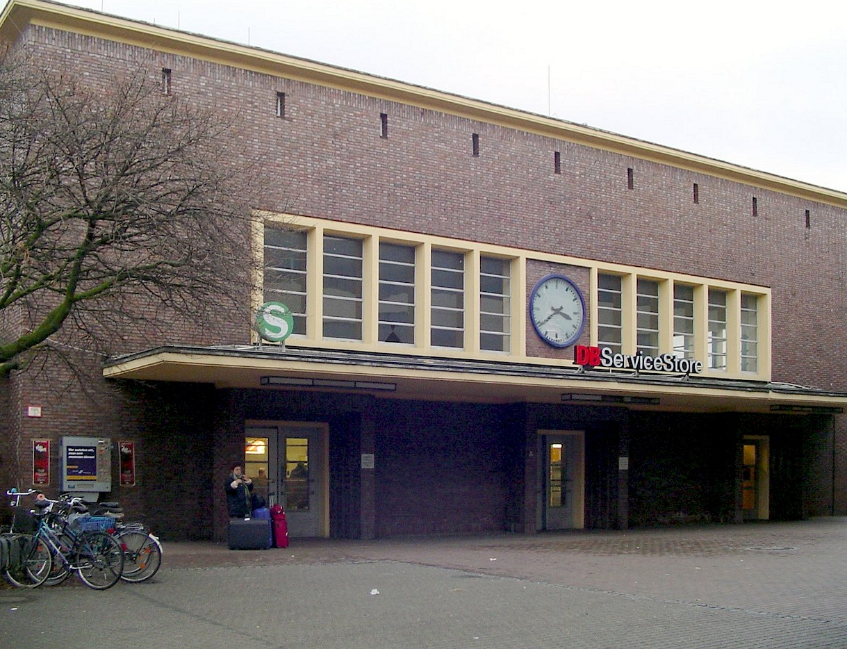 Train station in Düsseldorf-Benrath (S-Bahn), Germany